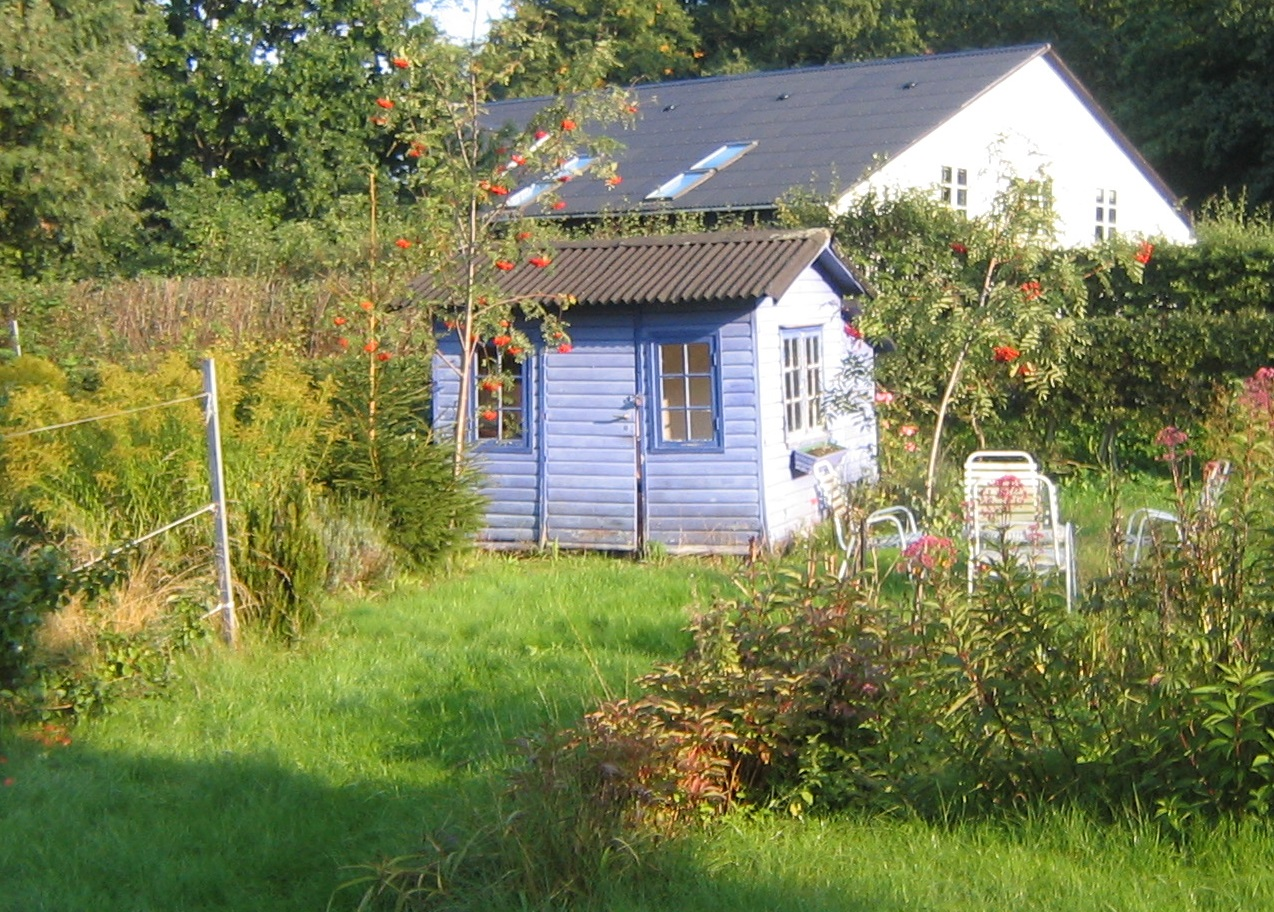 From the Oval Gardens in Nærum, Denmark